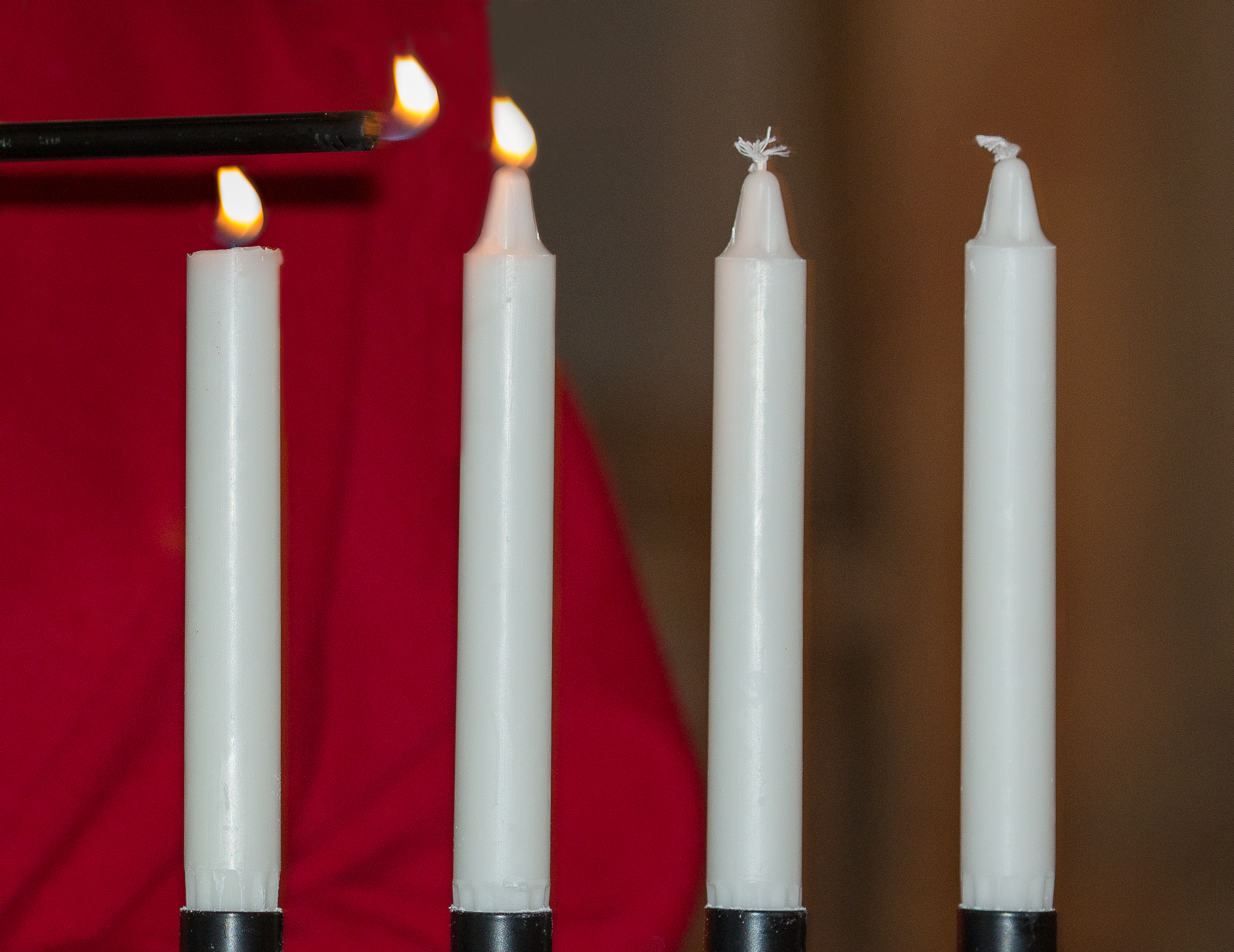 Second Advent Vaxholm December 2014